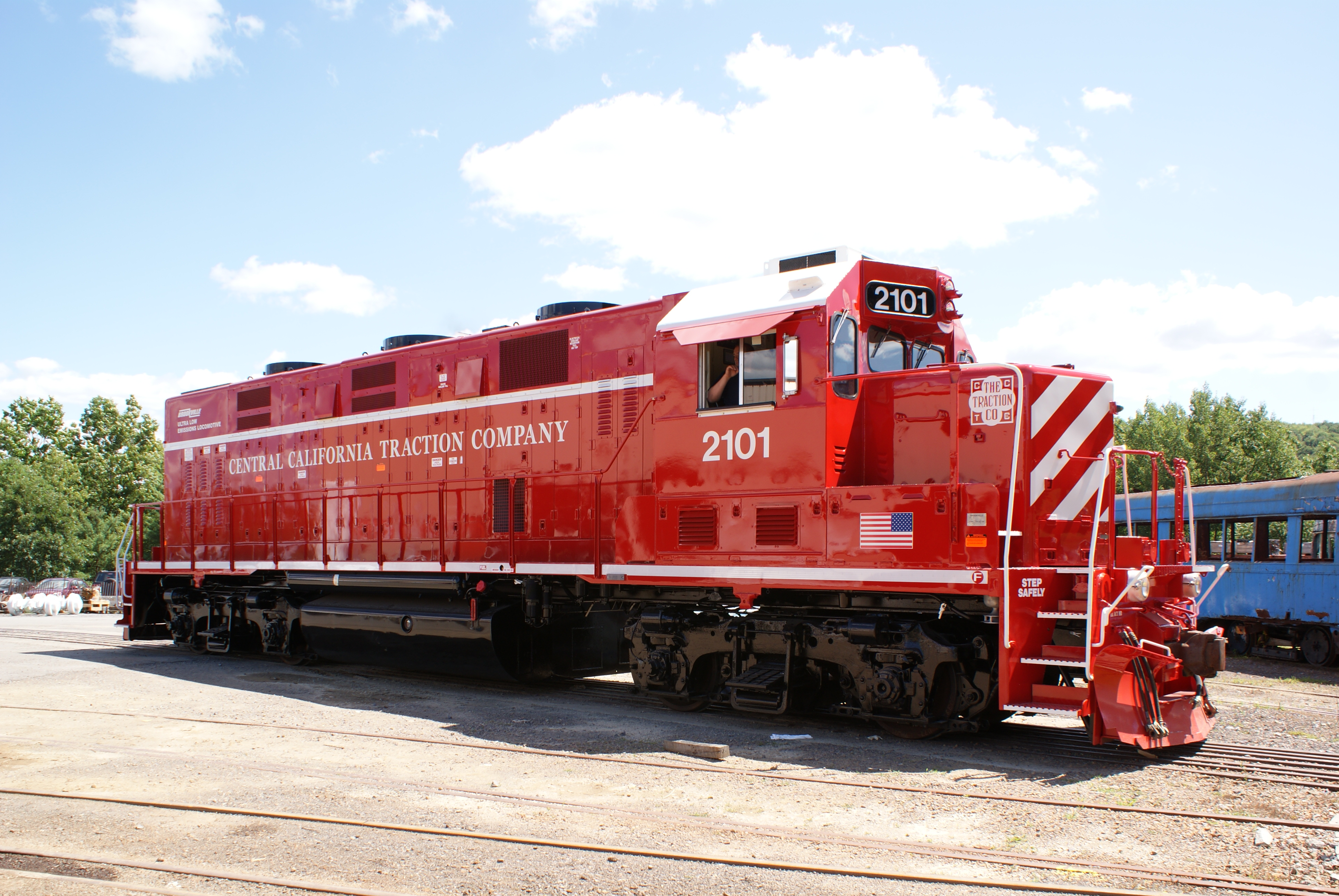 EPA Regional Administrator Jared Blumenfeld, along with the California Air Resources Board and San Joaquin Valley Air Pollution Control District and other local partners announced more than $21 million in Diesel Emissions Reduction Act funding to California that will stand to improve air quality and generate significant public health benefits, especially to the San Joaquin Valley. The cleaner diesel projects will fund cleaner locomotives, school buses, trucks, ships and agriculture irrigation pumps throughout California. These new technologies will eliminate approximately 88 tons of particulate matter, 1,232 tons of nitrogen oxides, and 102,118 tons of carbon dioxide emissions for the lifetime of these projects. In addition, EPA launched a strategic plan for the San Joaquin Valley that will address serious issues including air and water quality, enforcement of public health standards and environmental justice. The San Joaquin Valley is the top agricultural producer in California responsible for more than 250 unique crops and much of the nation’s fruits, vegetables, and nuts. Combined with its unique topography and wind patterns, the Valley’s success has resulted in severe impacts to the health of its more than four million residents. It also has some of the worst air quality in the country and the highest rates of childhood asthma in California. In addition, non-compliance with federal and state drinking water requirements are disproportionately affecting disadvantaged communities and small systems throughout the San Joaquin Valley.